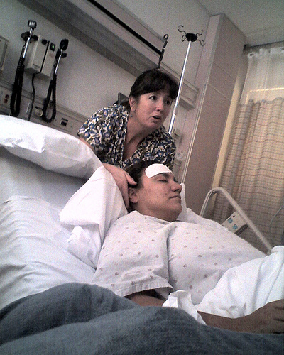 The healing hands of Penny the Wonder Nurse